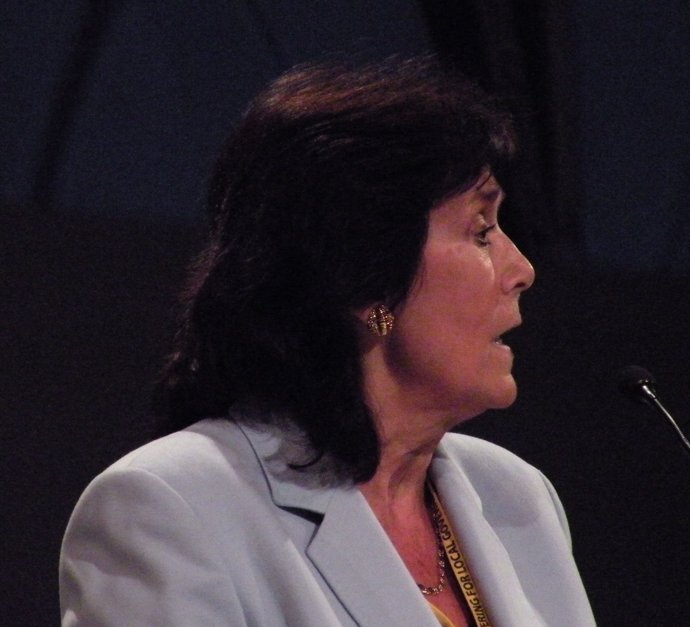 Liz Lynne MEP addressing a Liberal Democrat conference in the Bournemouth International Centre